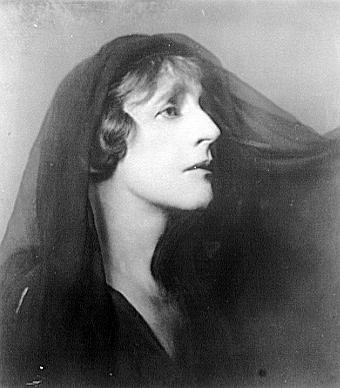 Canadian-born American actress Margaret Anglin (1876-1958) as Electra